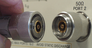 showing an APC-7 mating